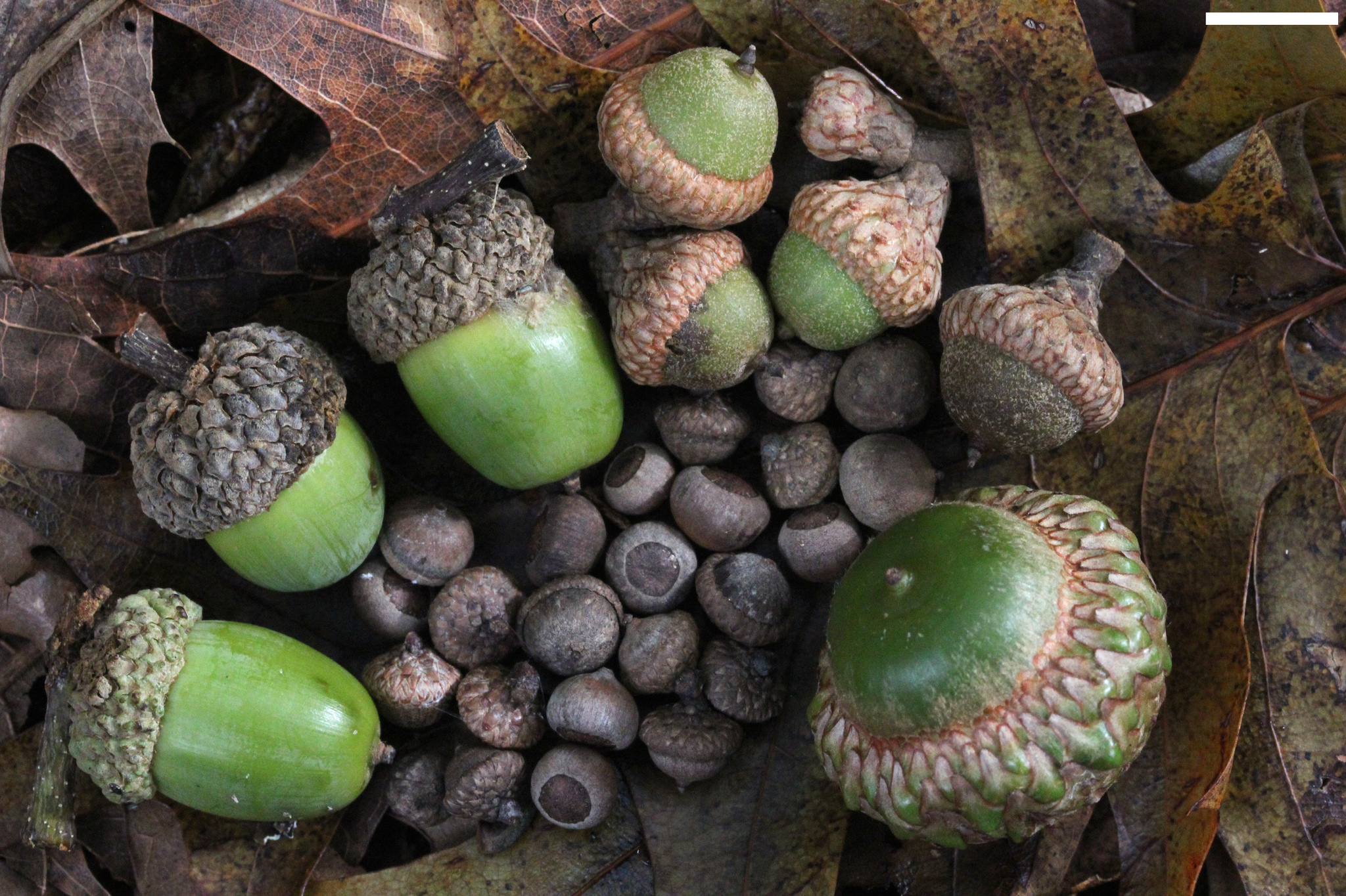 Acorns from small to large of the Willow Oak, Quercus phellos (very small, at center); the Southern Red Oak, Quercus falcata; the White Oak, Quercus alba; and the Scarlet Oak, Quercus coccinea; from southern Greenville County, SC, USA. Scale bar at upper right is 1.00 cm.